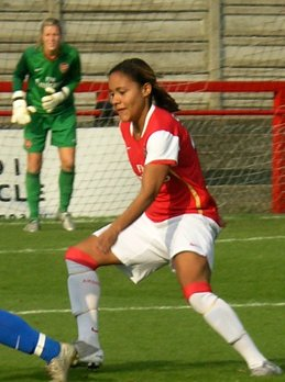 Bclfc vs arsenal in the FA league cup, season 2006/07. For more details go to